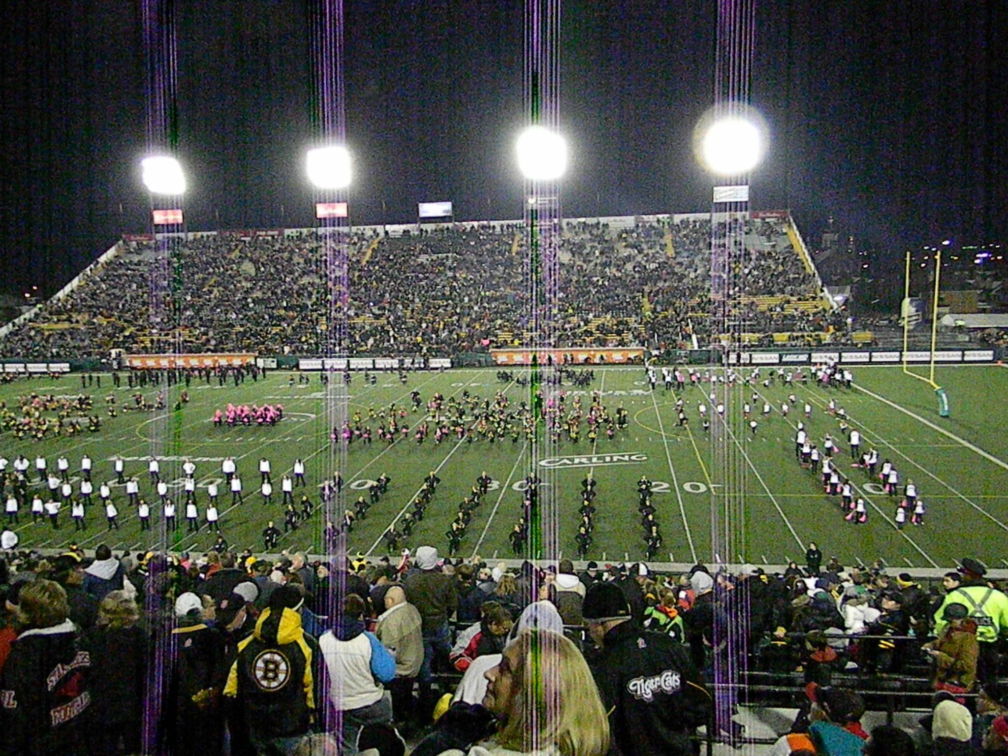 Hamilton Tiger-Cats vs BC Lions 42:10, played on Ivor Wynne Stadium in Hamilton